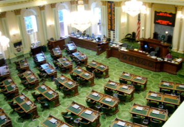 Chamber of the California State Assembly. Taken by me.